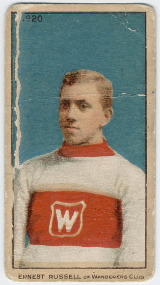 Ernest Russell These cards were placed in cigarette packages c. 1910-12 and were collected just as hockey & baseball cards from bubble gum packages are today. Signatures and inscriptions Inscribed. Dated. Inscription: Inscribed recto: u.l. "No 20" in print, lower edge "ERNEST RUSSELL of Wanderers Club" in print; verso top to bottom "HOCKEY SERIES / Ernest Russell, / Montreal, / Has played with / Wanderers, / 1906 to 1910 / Montreal / Previously" in print.